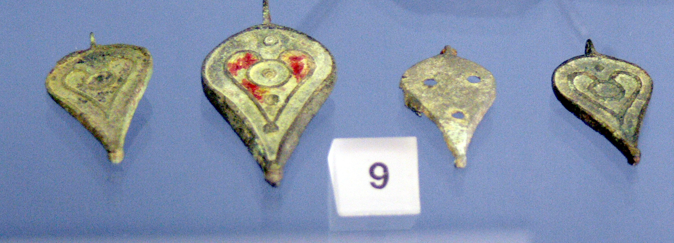 Enns ( Upper Austria ). Museum Lauriacum: Seal boxes ( 3rd century AD ).